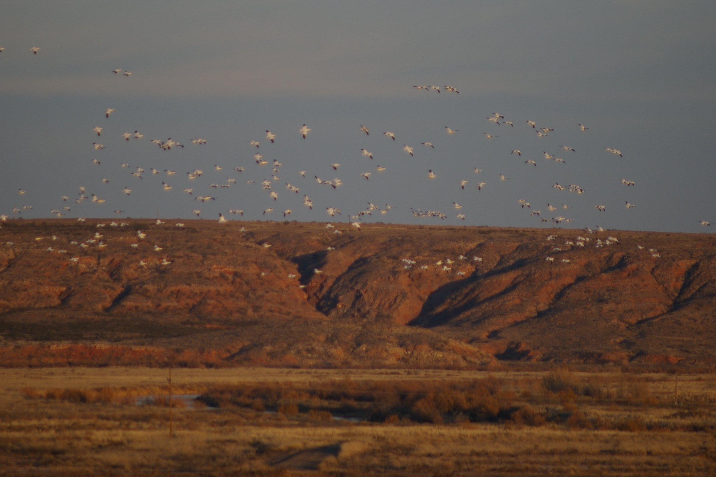 Birds landing on the lake in front of the visitor center at Bitter Lake National Wildlife Refuge near Roswell, New Mexico, USA.